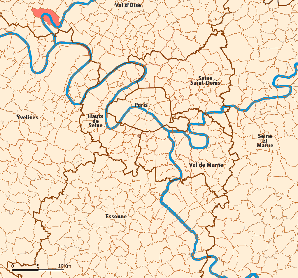 Created map myself.